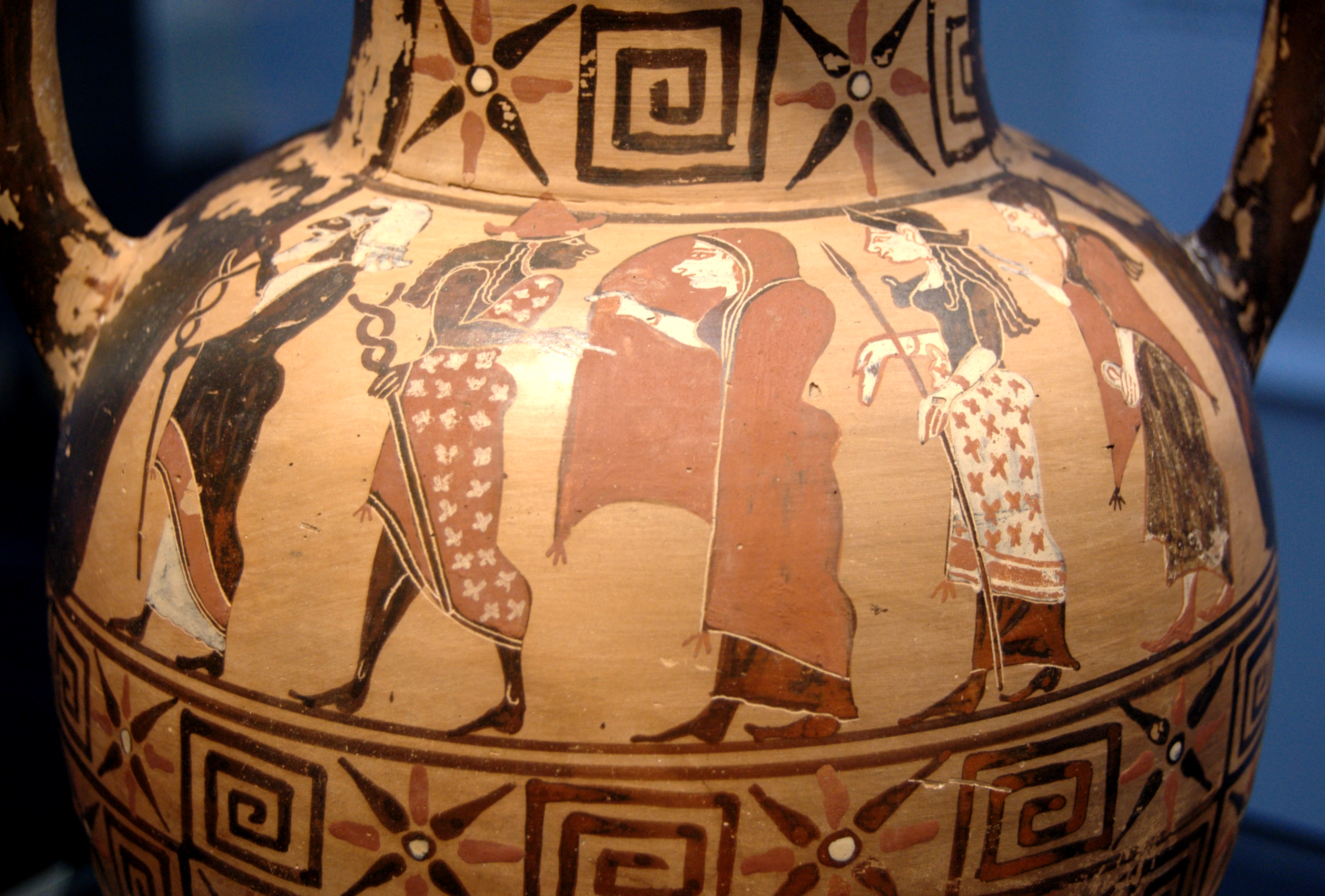 Judgement of Paris. Side A of an Etruscan black-figure amphora, ca. 530 BC.